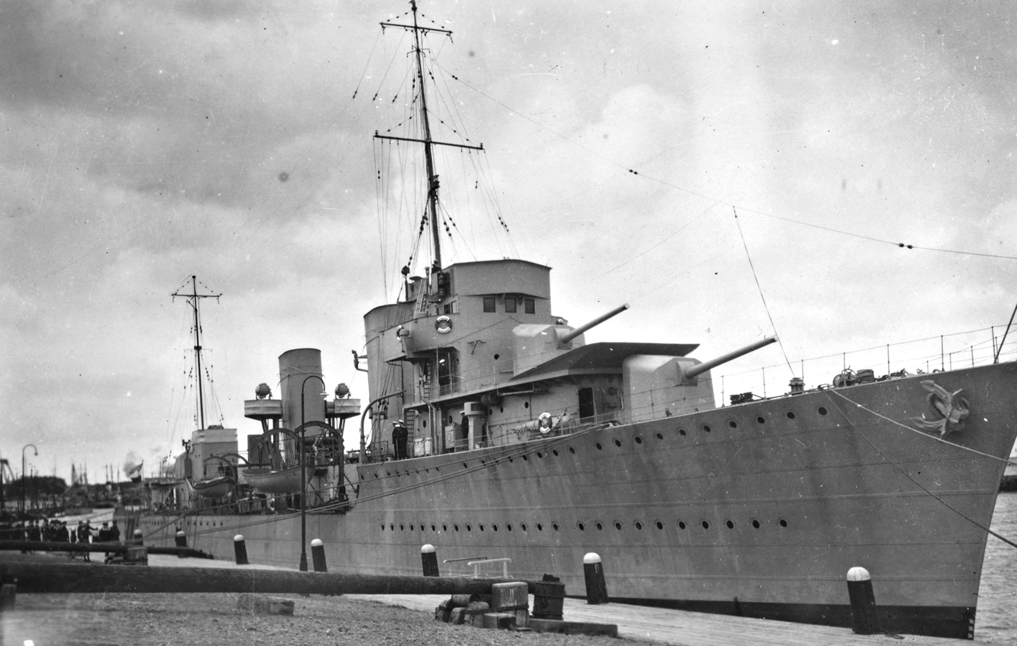 Destroyer Dubrovnik in Tivat harbour